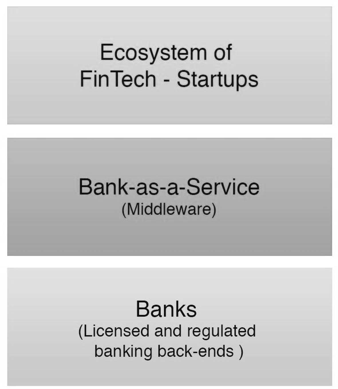 Chris Skinner suggested this Banking as a Service stack with a licensed bank as foundation, a BaaS as middleware and an ecosystems of FinTechs on top.